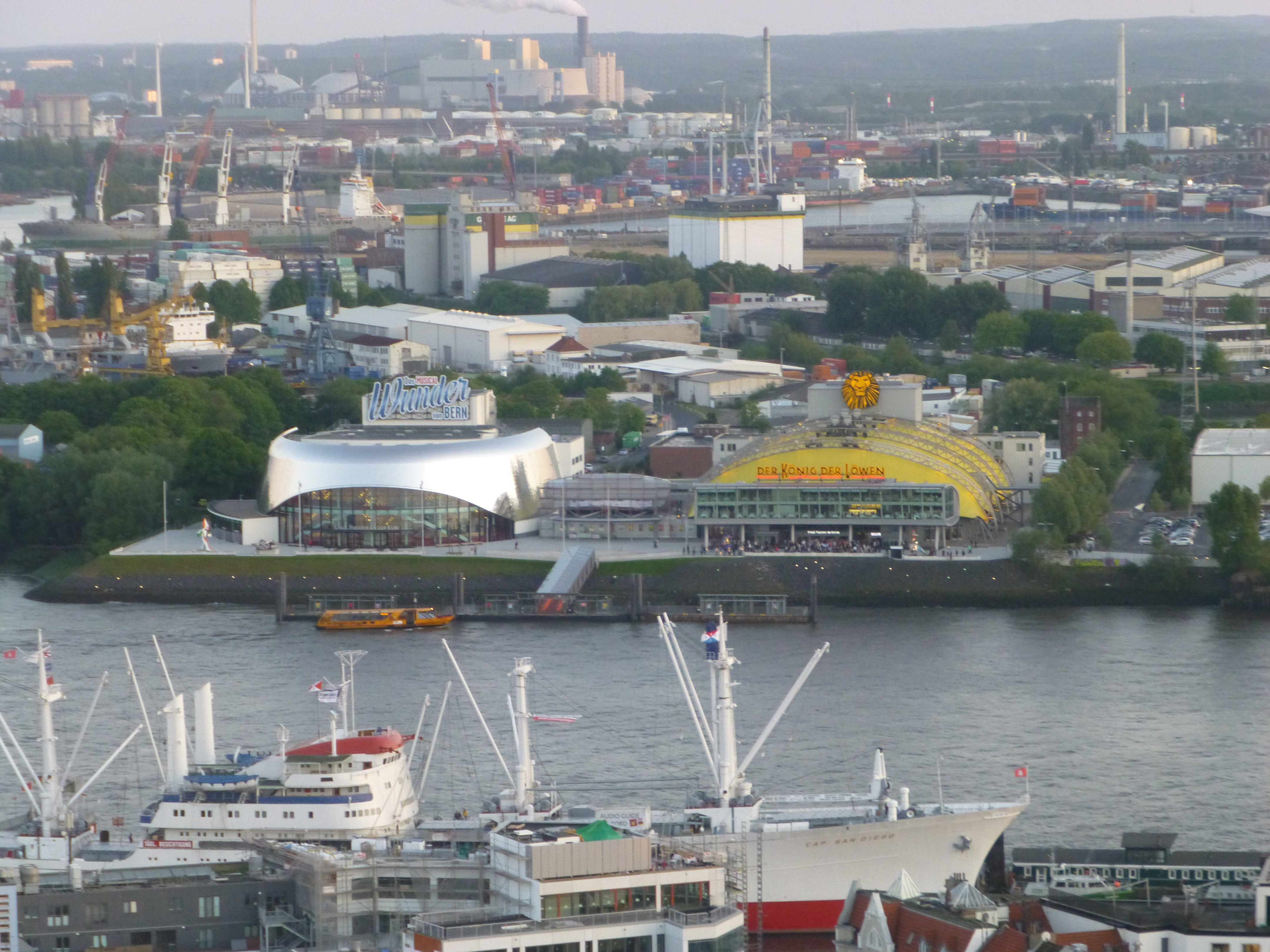 Stage Entertainment musical venues, Hamburg harbour, Germany.